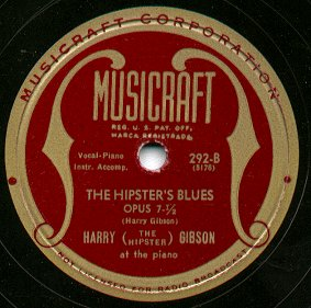 Musicraft 78 label, from record featuring Harry "The Hipster" Gibson